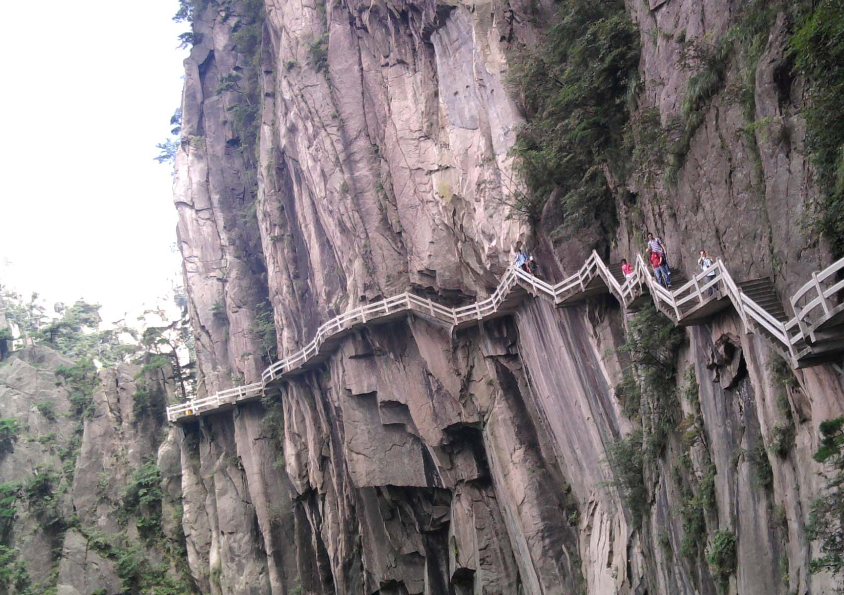 Stairway on the cliffs of Yellow Mountain. Tourist steps built on the cliffs of Huangshan aka Yellow Mountain.